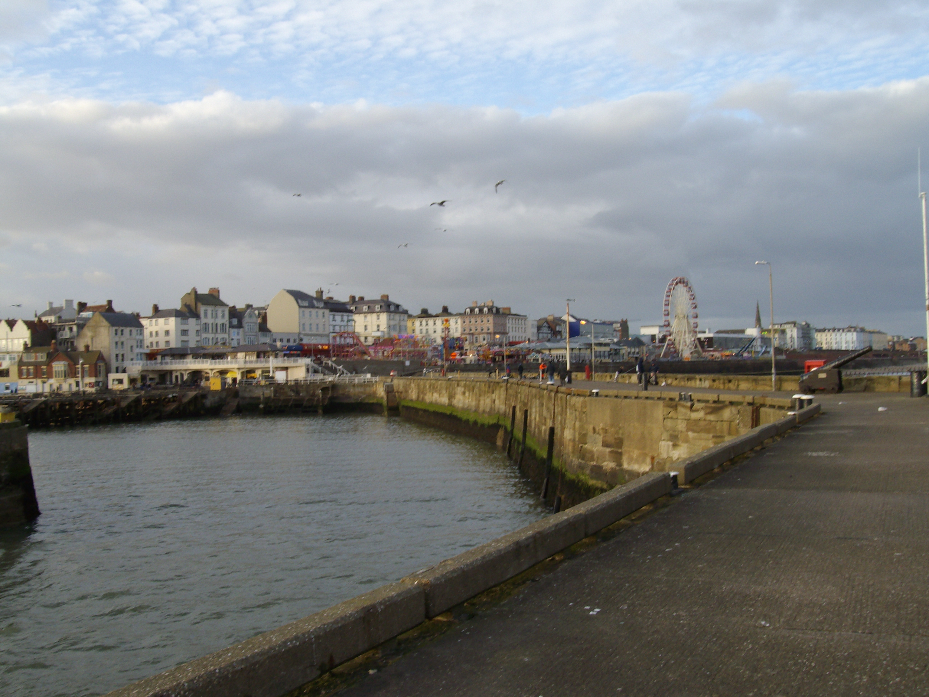 The view of Bridlington, East Riding of Yorkshire, England, from the dock gates.